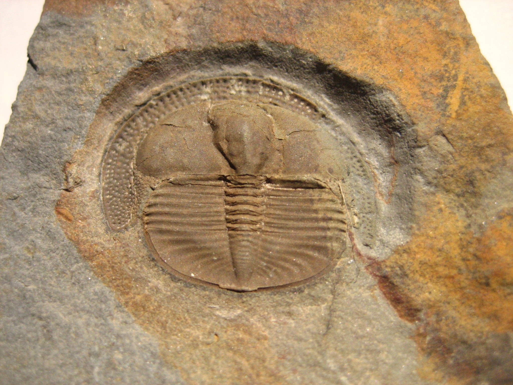 Lloydolithus lloydi from Meadowtown, Shropshire, England, UK. Paleozoic Middle Ordovician (Llandeilo Series)